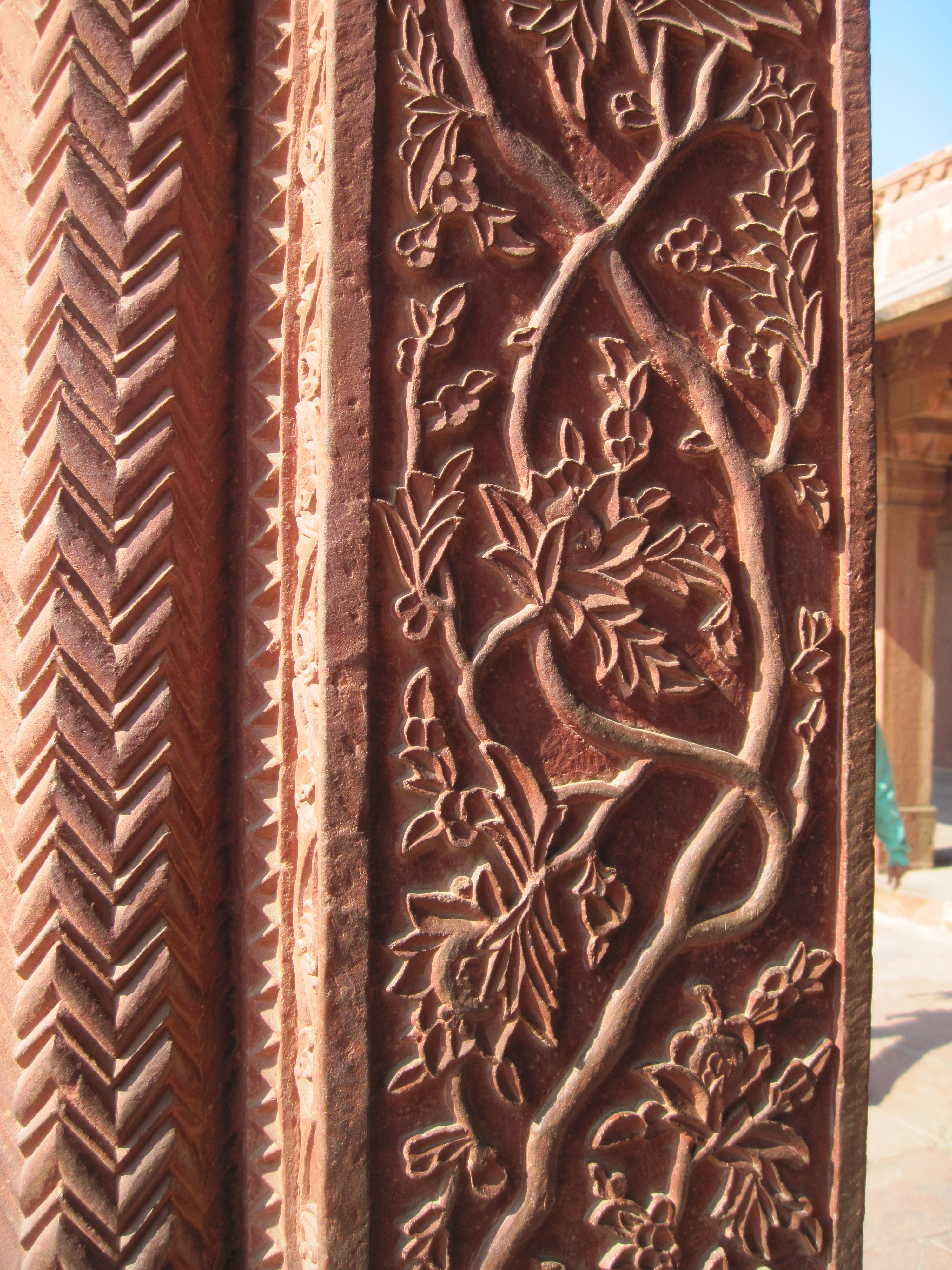 N-UP-A45-a.